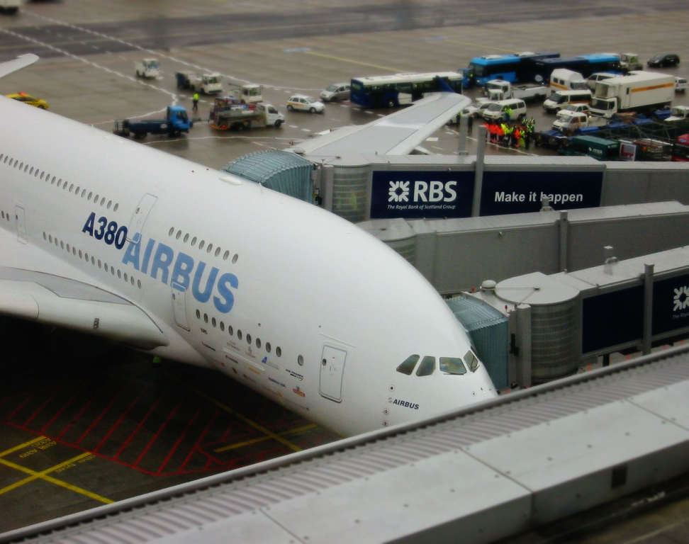 The Airbus A380 at Frankfurt Airport